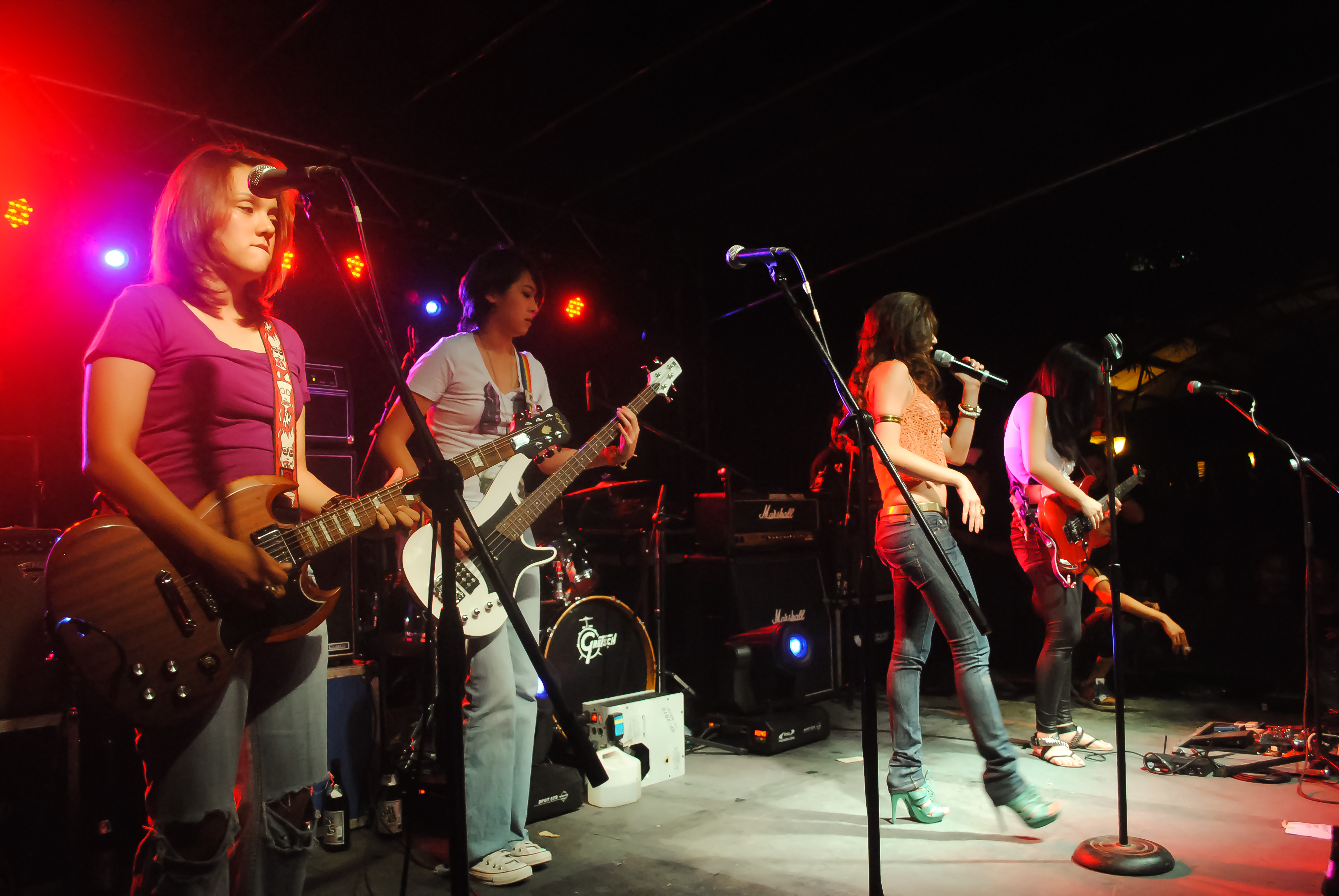 General Luna performing at The Outpost, Cebu City (from L to R: Audry Dionisio, Alex Montemayor, Bea Lao (not in photo), Nicole Asensio, and Caren Mangaran)